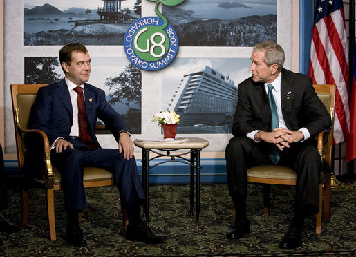 An image from the 2008 G8 Summit showing George W. Bush with President Dmitriy Medvedev of Russia. Image uploaded for use in a Wikinews article